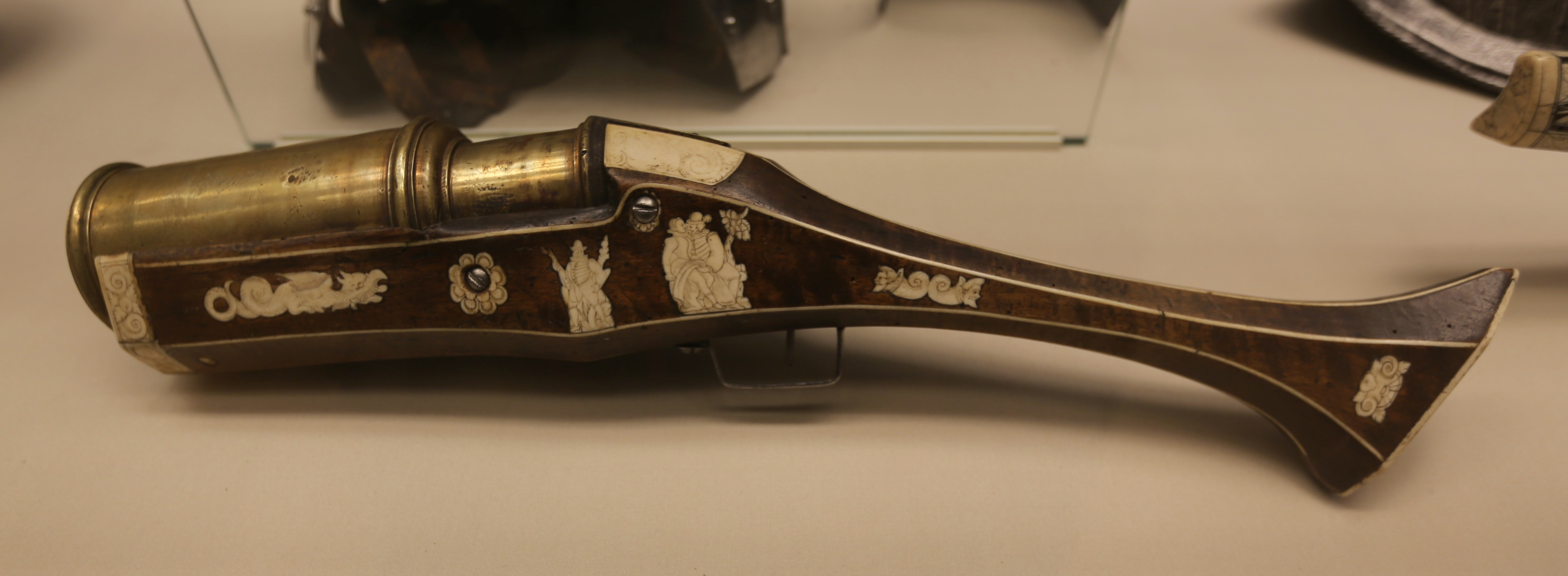 Wheellock and matchlock hand mortar dating from 1590s now in the british museum reg number 1881,8-2,135 or 1881,0802.135